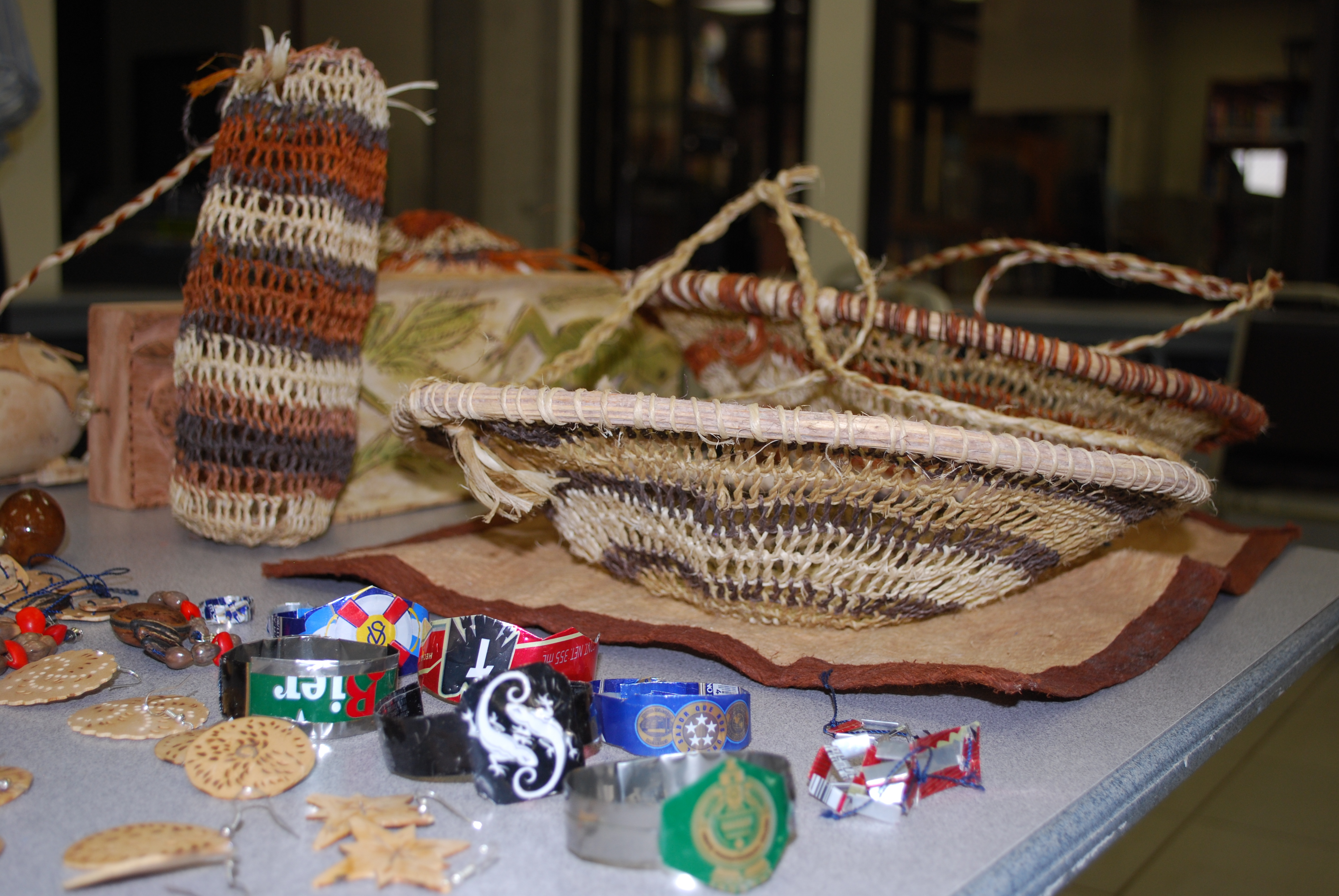 Assorted Pech crafts in Honduras